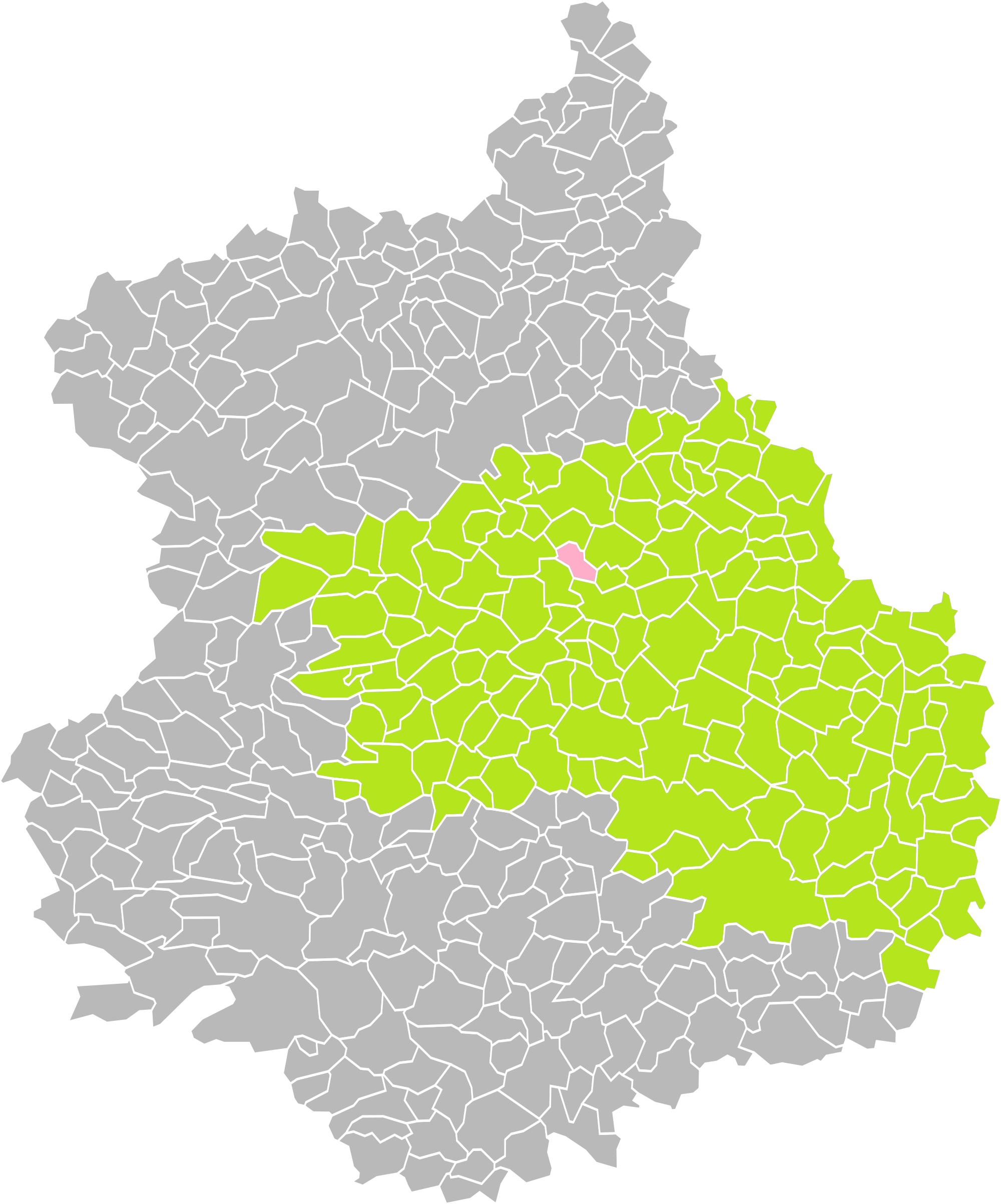 Location of the commune of Lèves in the arrondissement of Chartres (Eure-et-Loir)